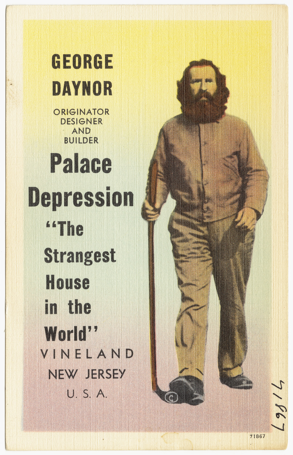 File name: 06_10_012415 Title: George Daynor, originator designer and builder, Palace Depression, "The Strangest House in the World", Vineland, New Jersey, U. S. A. Date issued: 1930 - 1945 (approximate) Physical description: 1 print (postcard) : linen texture, color ; 5 1/2 x 3 1/2 in. Genre: Postcards Notes: Title from item. Collection: The Tichnor Brothers Collection Location: Boston Public Library, Print Department Rights: No known restrictions